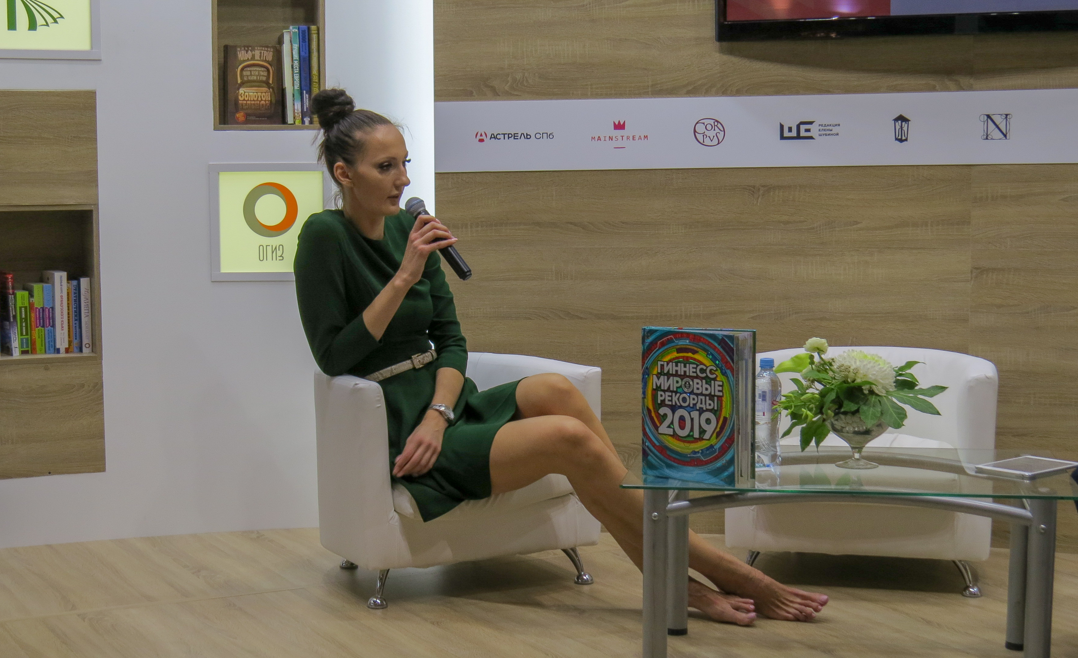 Yekaterina Lisina at the MIBF 2018.